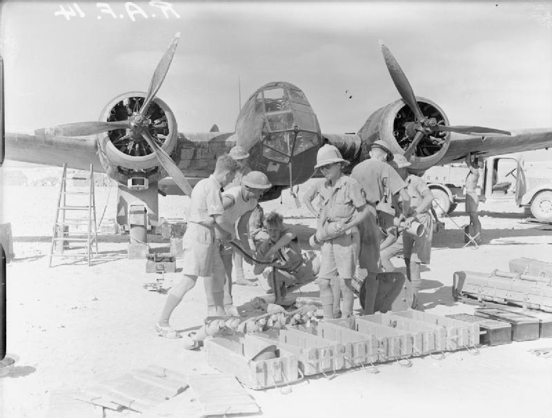 IWM caption : Armourers of No. 113 Squadron RAF place 20-lb Fragmentation bombs into a Small Bomb Container, and prepare .303 ammunition, for loading into one of the Squadron's Bristol Blenheim Mark Is at Ma'aten Bagush, Egypt, before a raid on Italian positions at Tobruk.